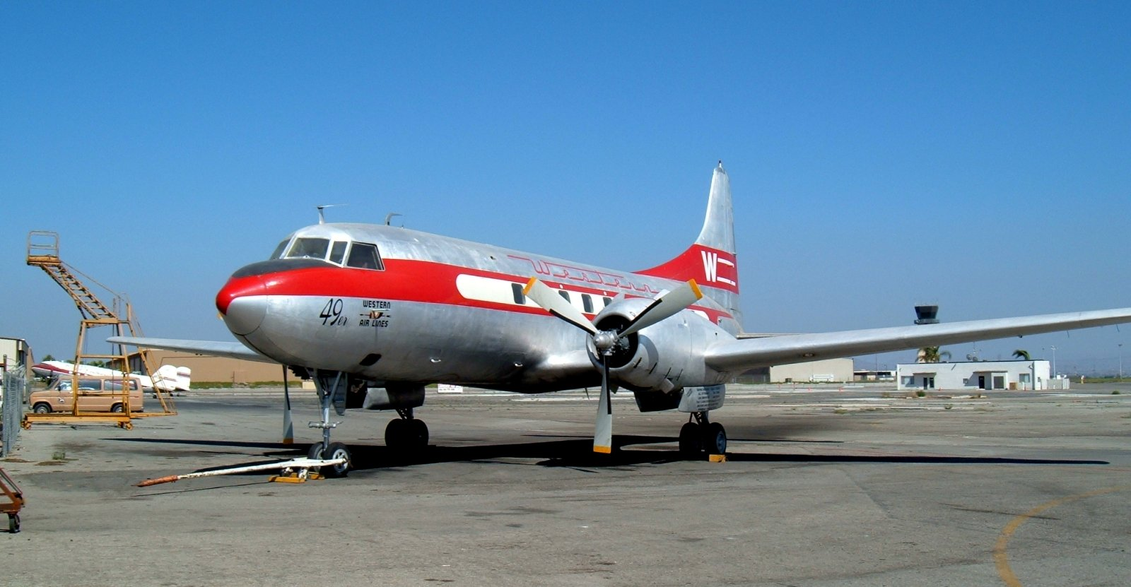 A Convair 240 at Planes of Fame, July, 2005.